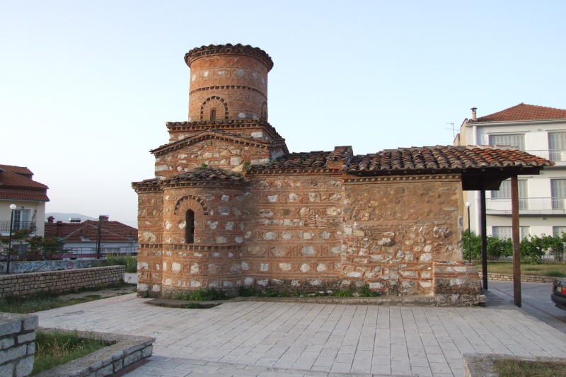 Church Panagia Koumbelidiki in Kastoria, Greece